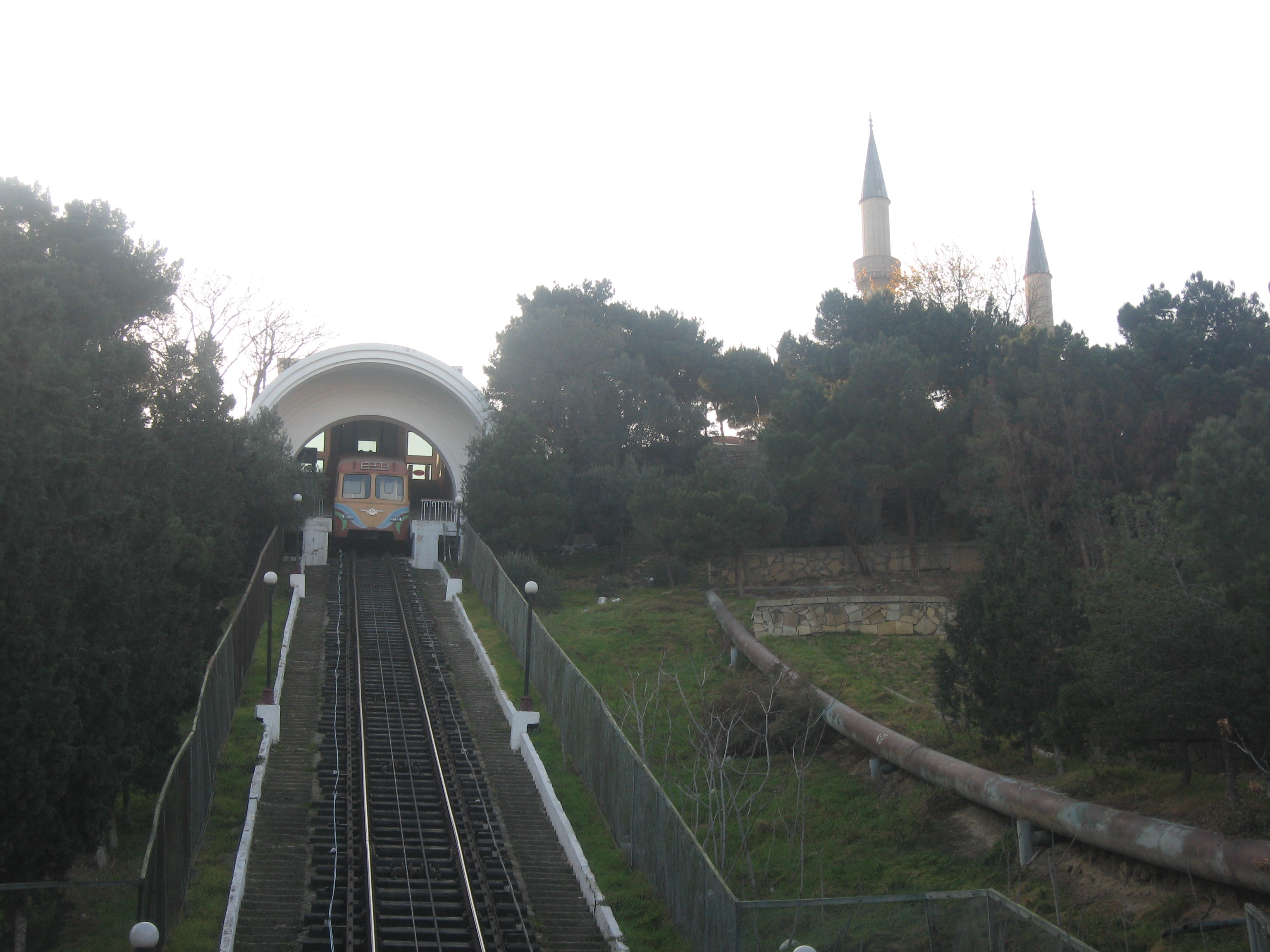 Baku Funicular in 2008.